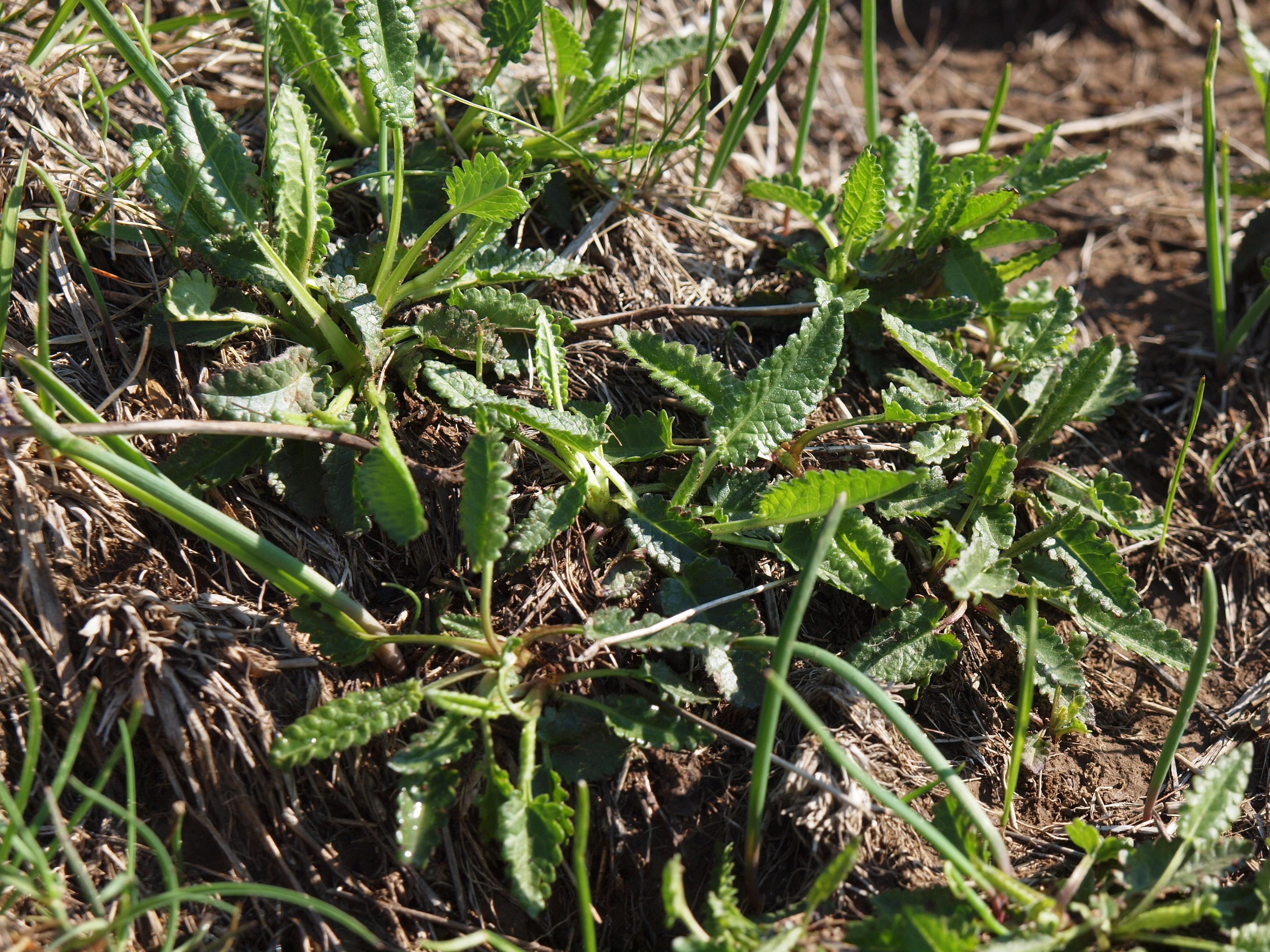 Betonica var. Orjen Montenegro. Borovi do Bijela gora at 1450 m